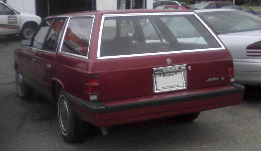 1986-1988 Dodge Aries photographed in Montreal, Quebec, Canada.